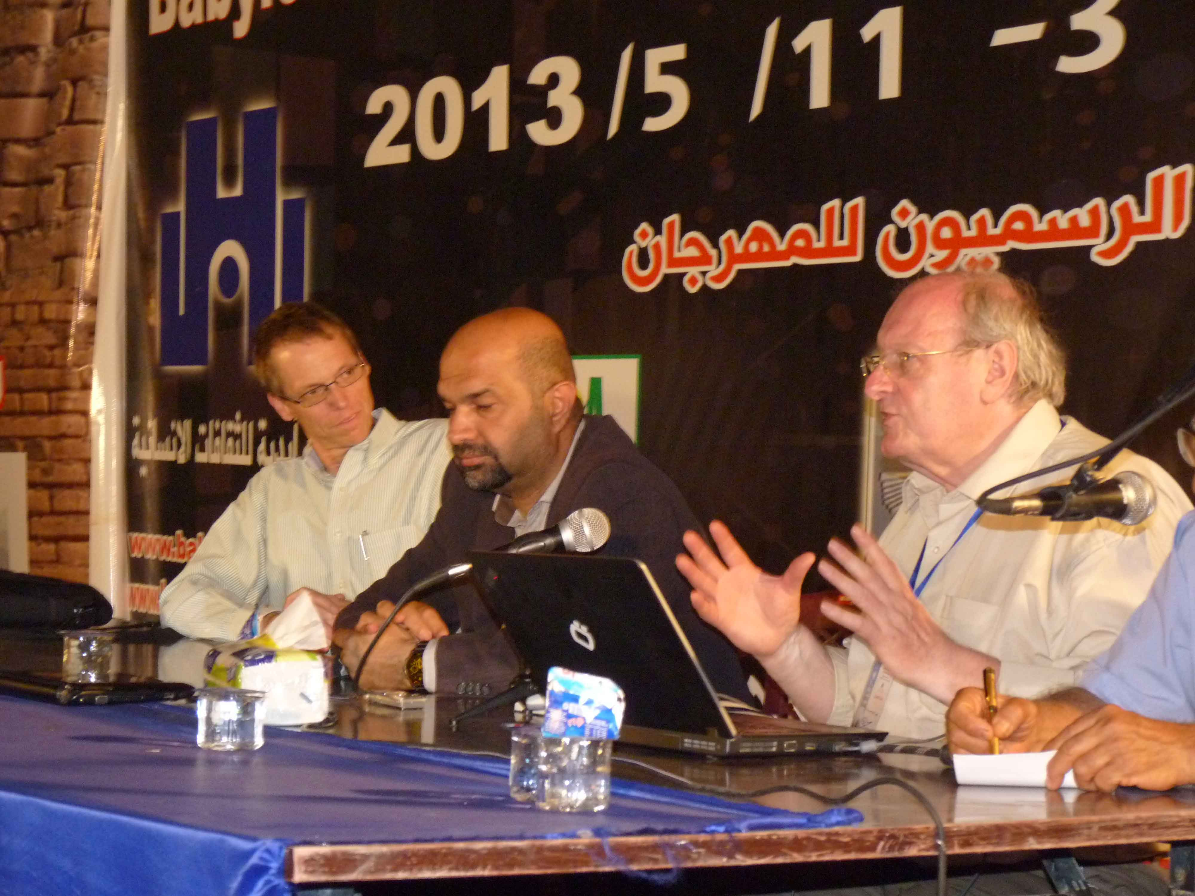 Richard Dumbrill lecturing about Babylonian musicology